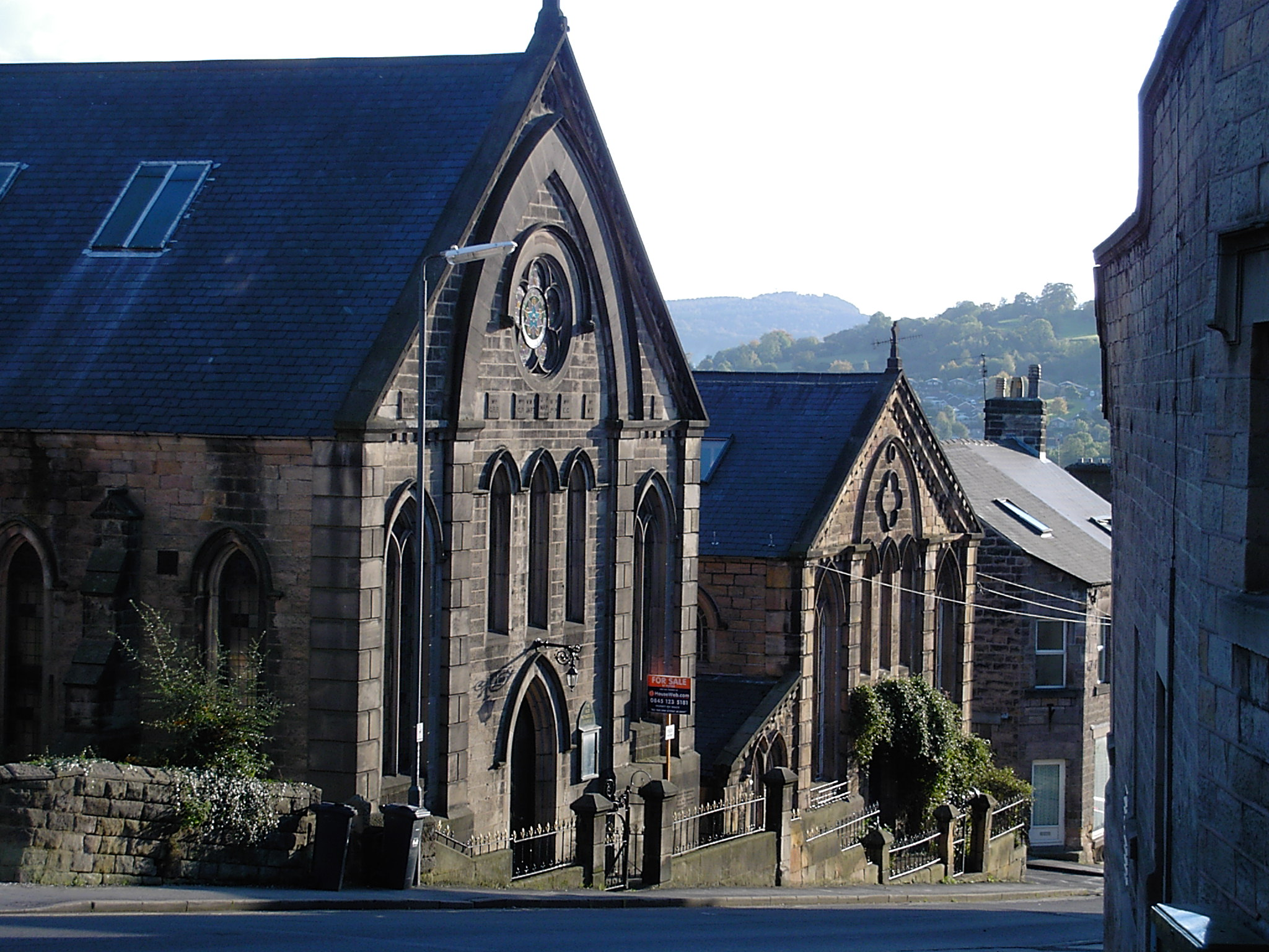 Matlock - Chapels on Bank Road